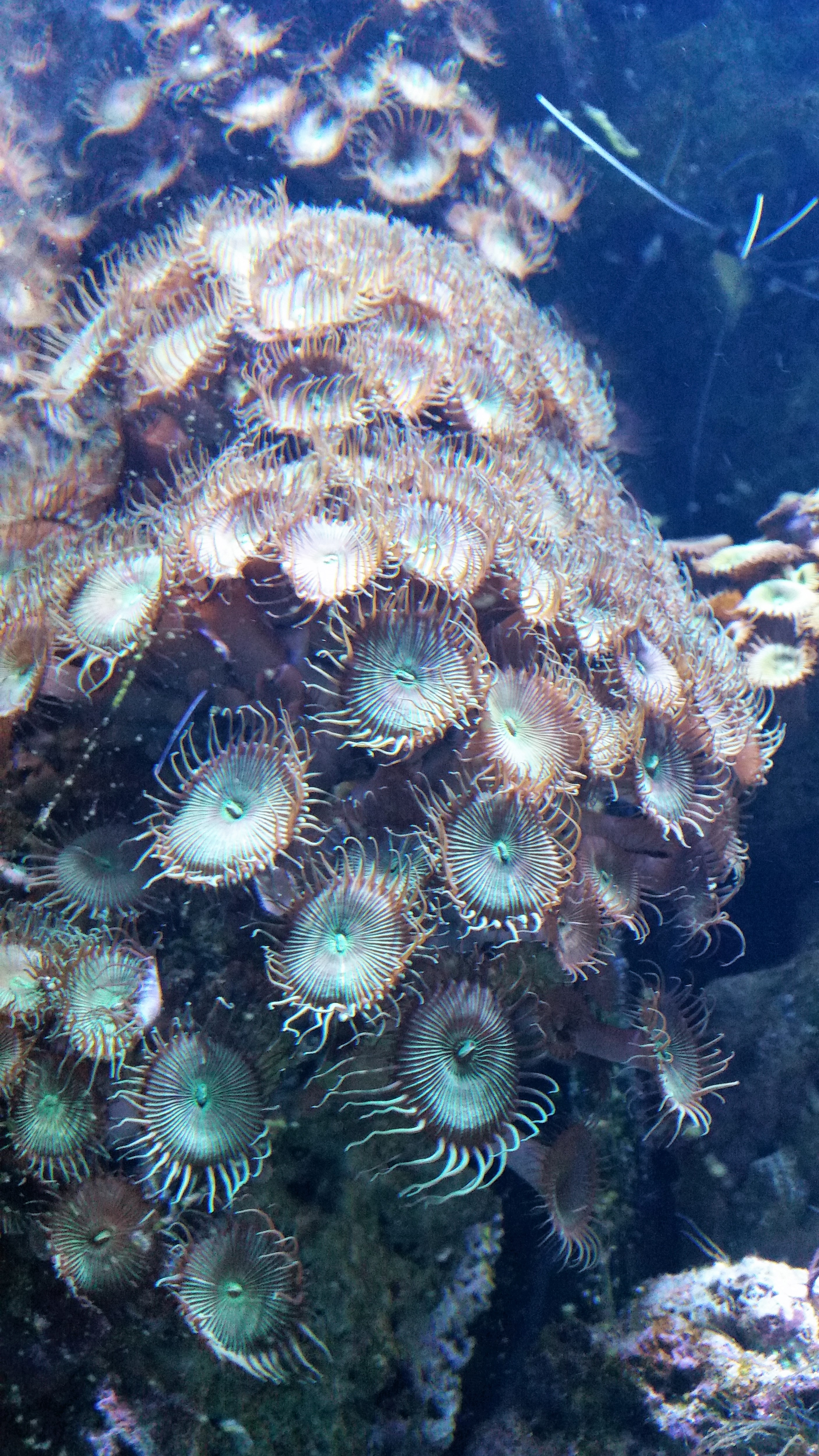 Green sea mat or button polyp (Zoanthus sociatus) in Southend-on-Sea aquarium, England.